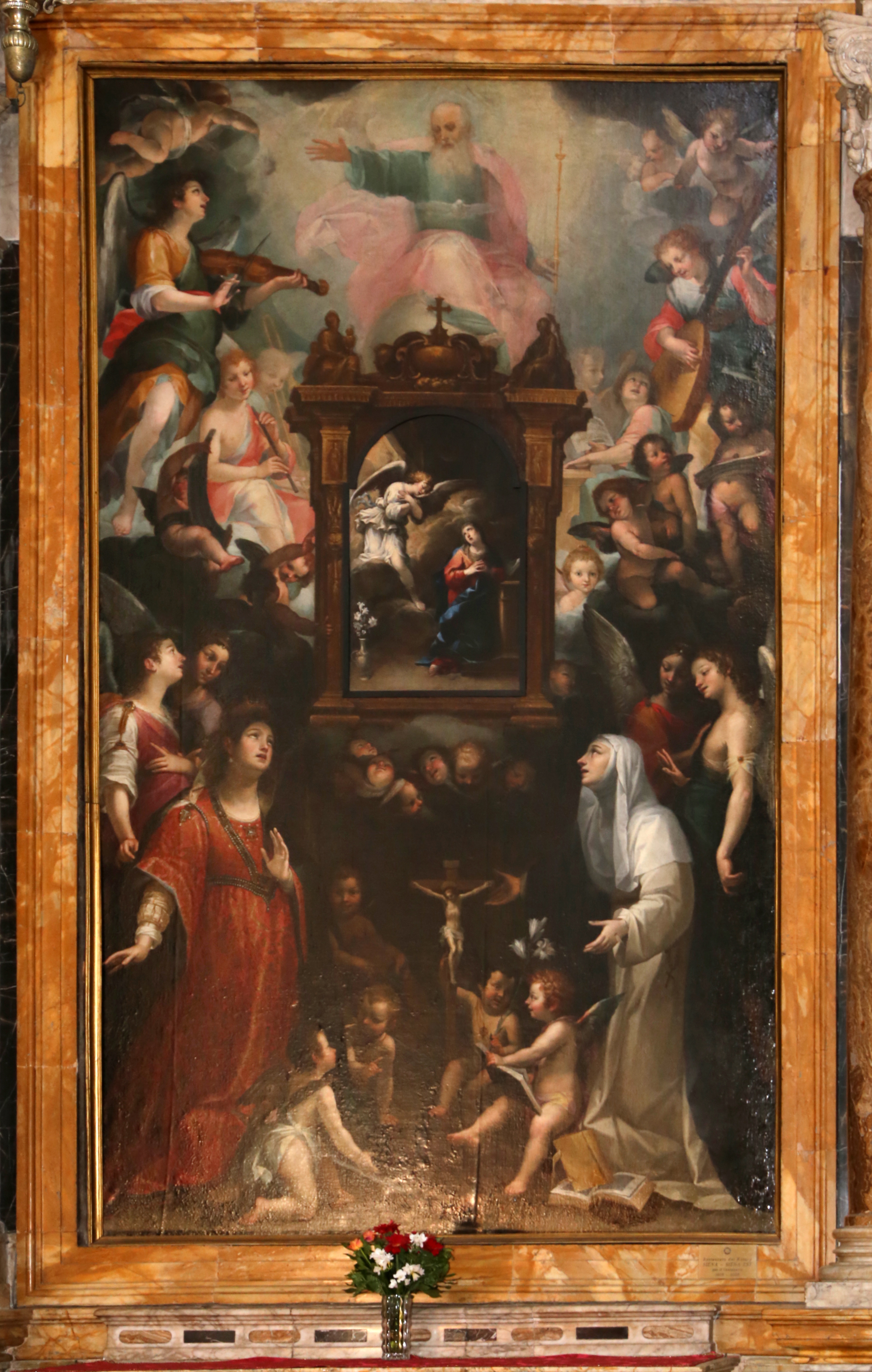 Santa Maria di Provenzano (Siena)